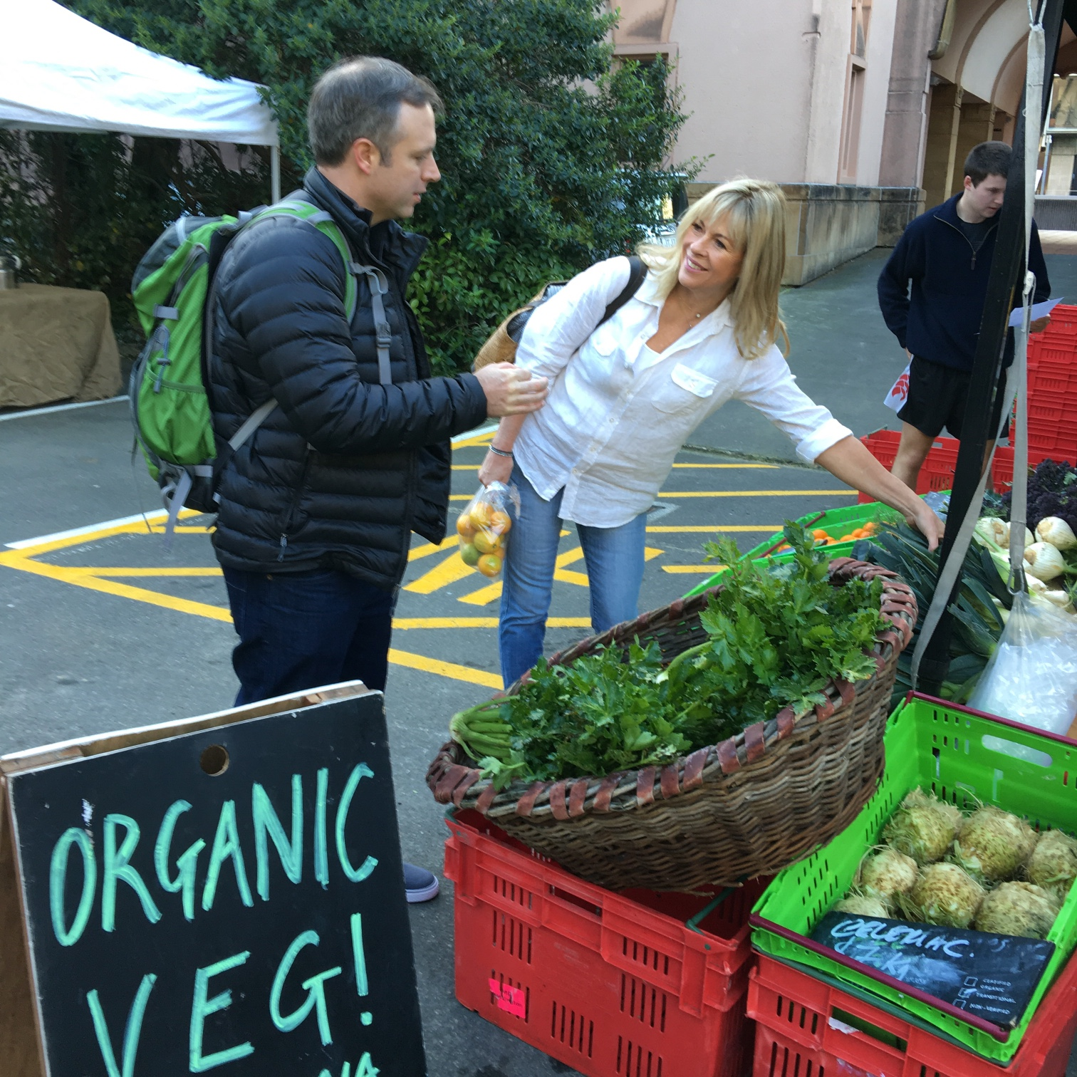 Quick stop at the Thorndon Farmers Market